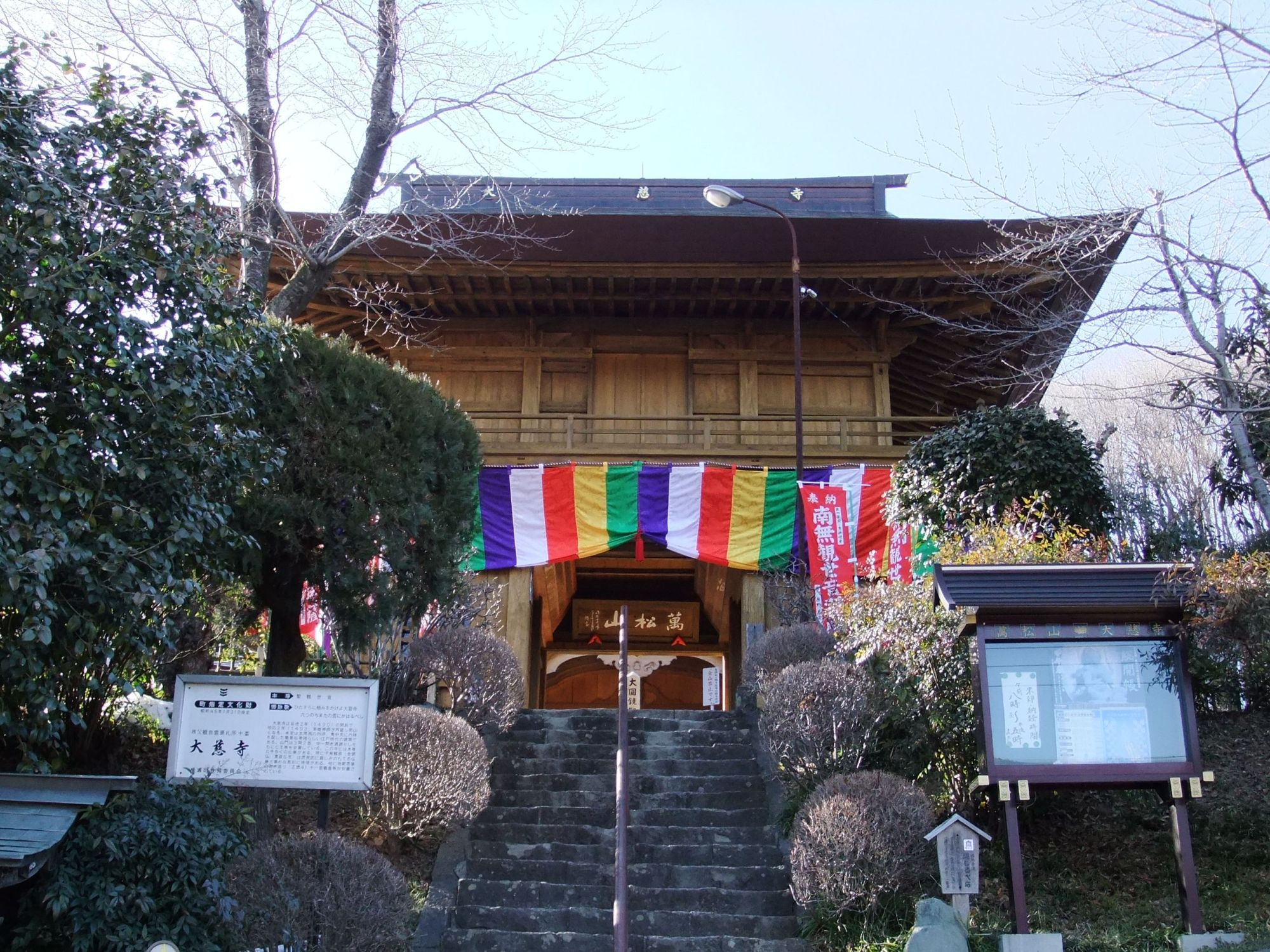 Niōmon gate of Daiji-ji temple in Yokoze, Saitama